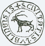 Lublin city seal from 1401.